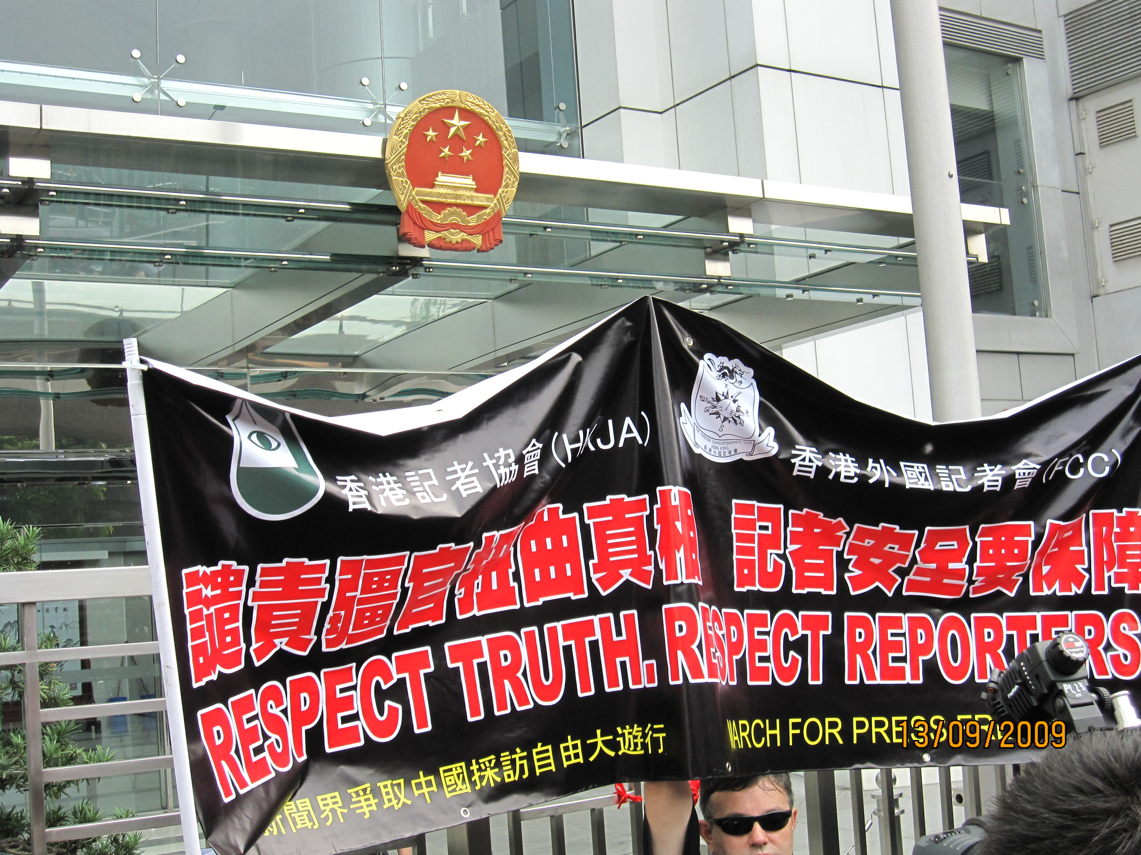 Hong Kong journalists protest September 13, 2009